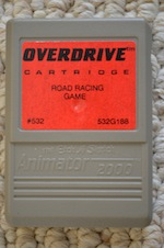 This is overdrive a racing game for the Etch A Sketch Animator 2000.